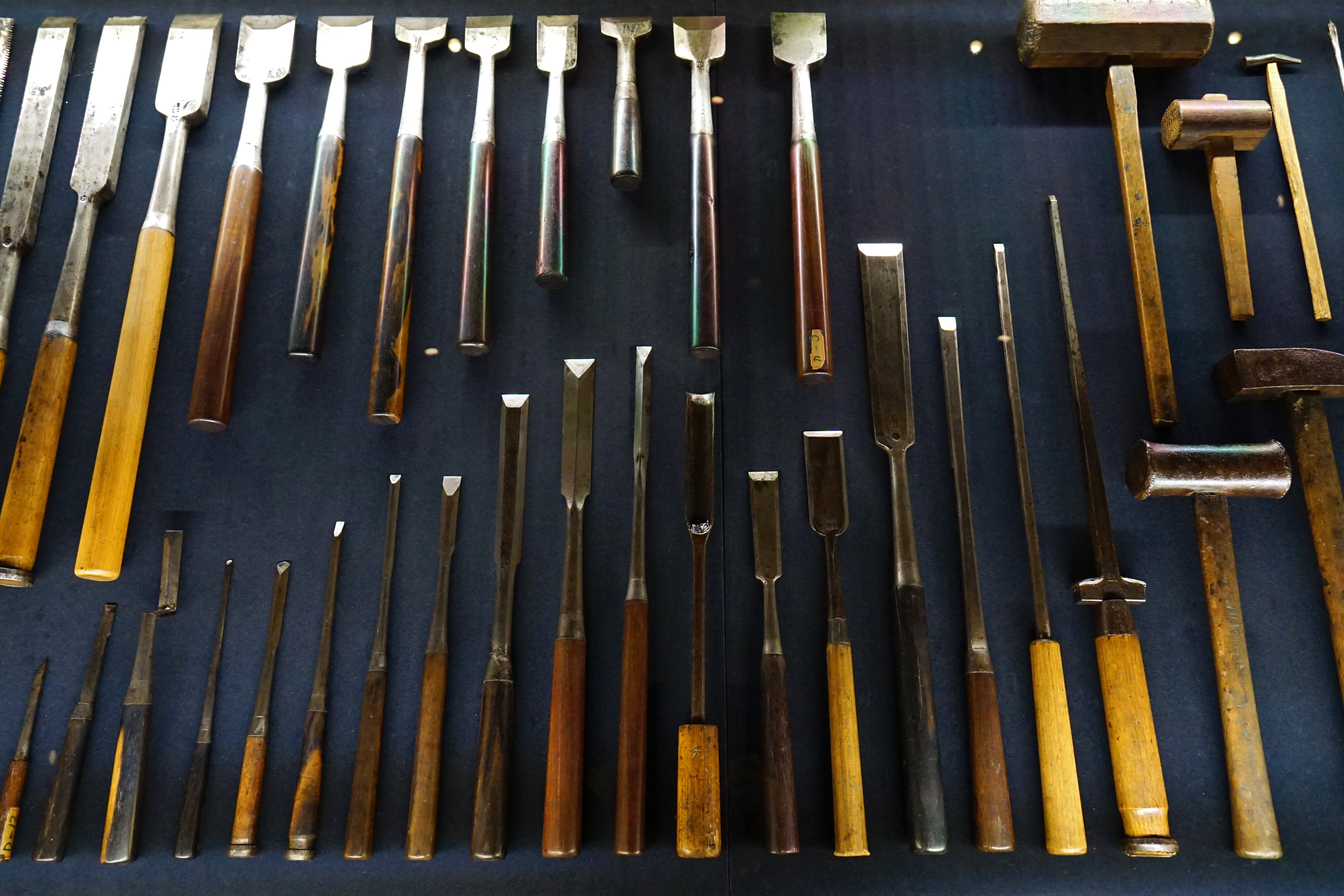 Takenaka Carpentry Tools Museum in Kobe, Hyogo prefecture, Japan.